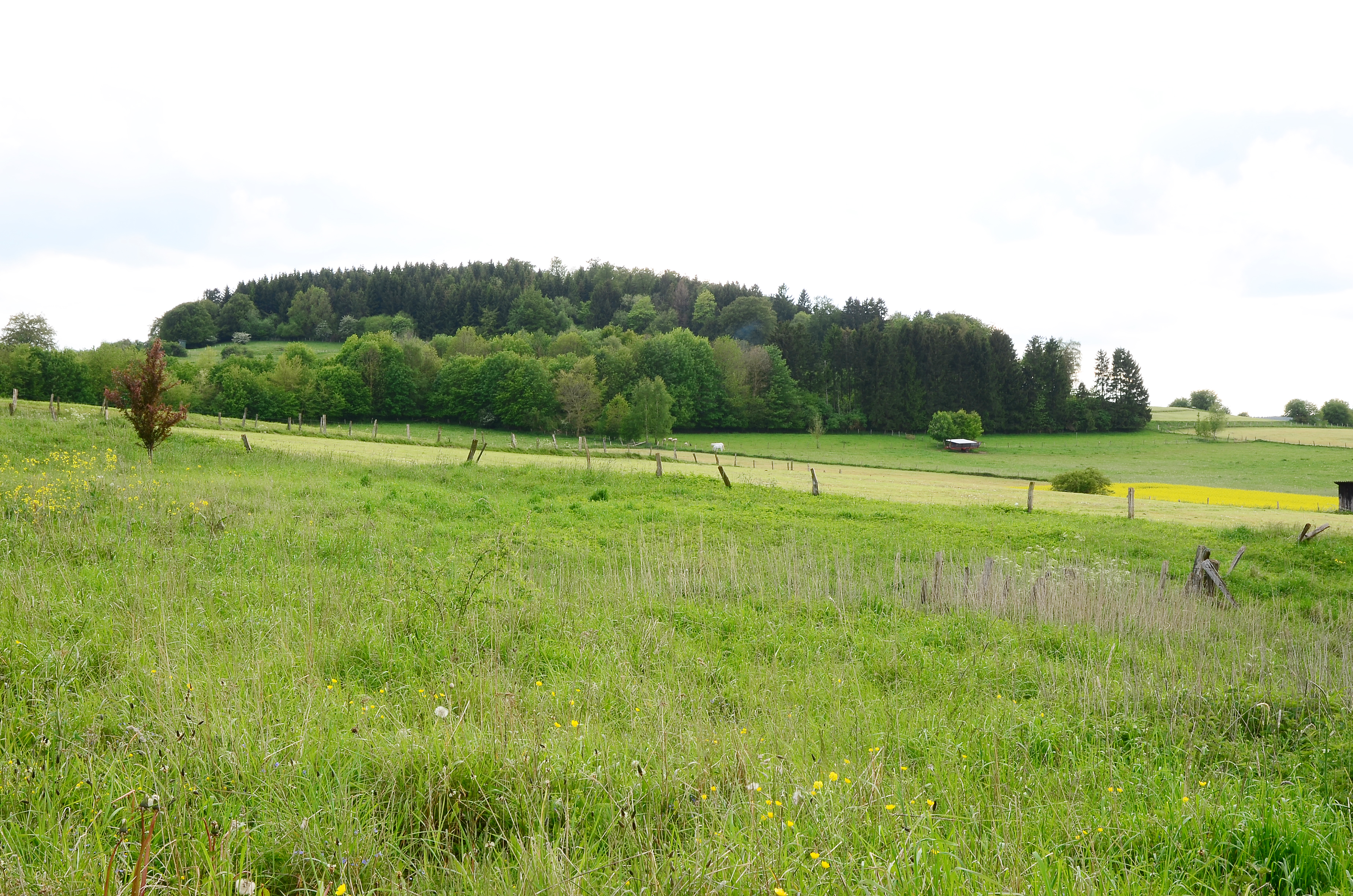 Nature reserve Burhagen (7) Key number: HSK-503, Brilon, North Rhine-Westphalia, Germany.